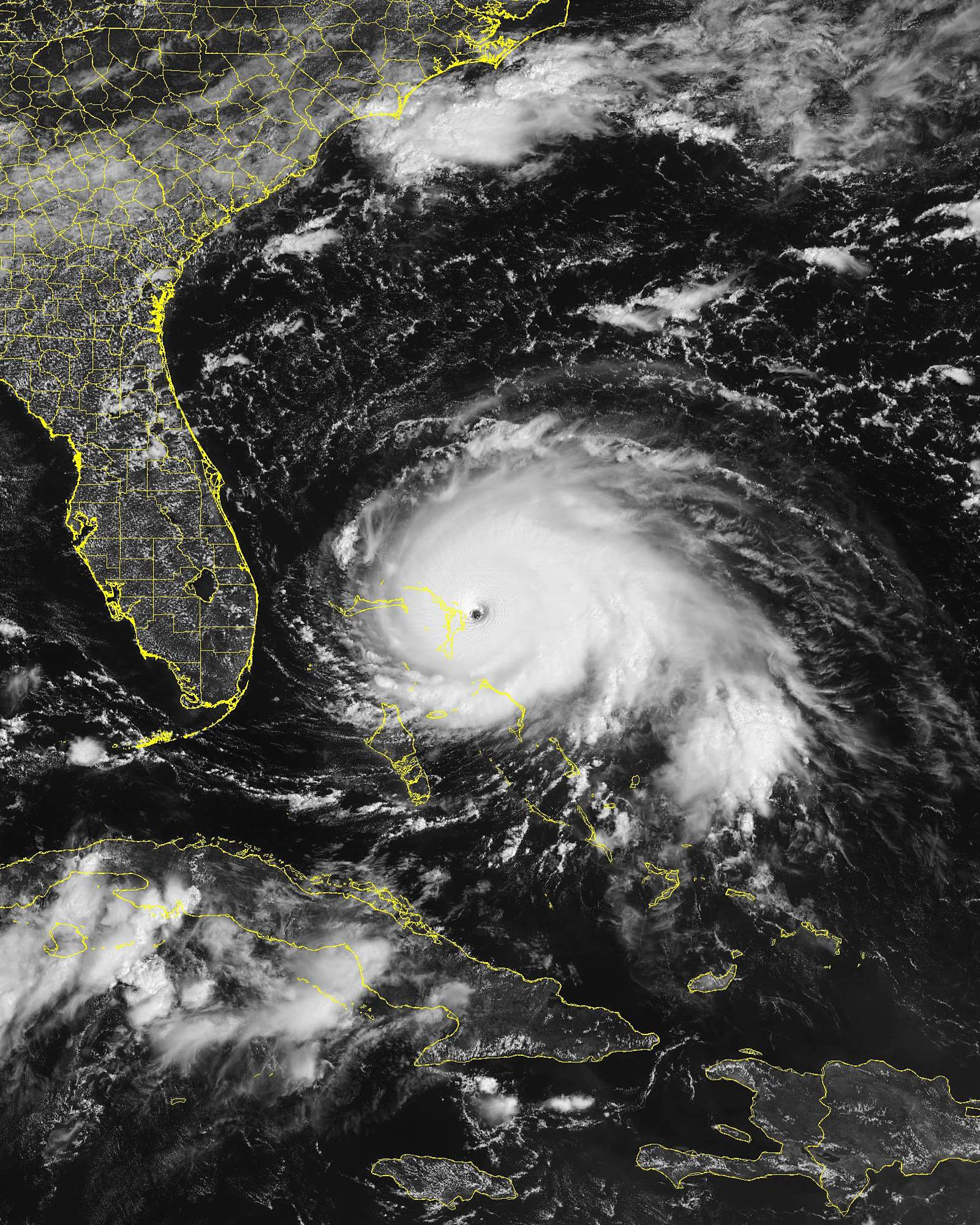 Hurricane Dorian on September 1, 2019, with eye of the cyclone in the East of Abaco Islands (Bahamas). In the left of the image is the US East coast with Florida in the South.